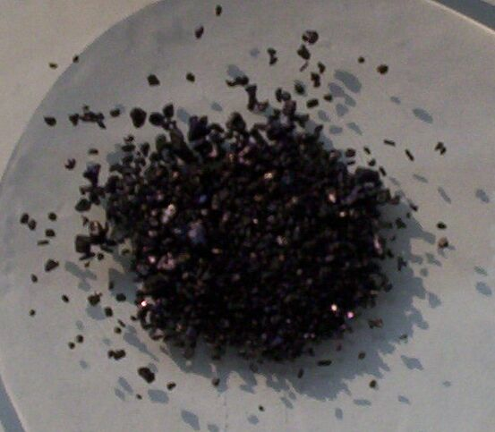 A sample of potassium permanganate